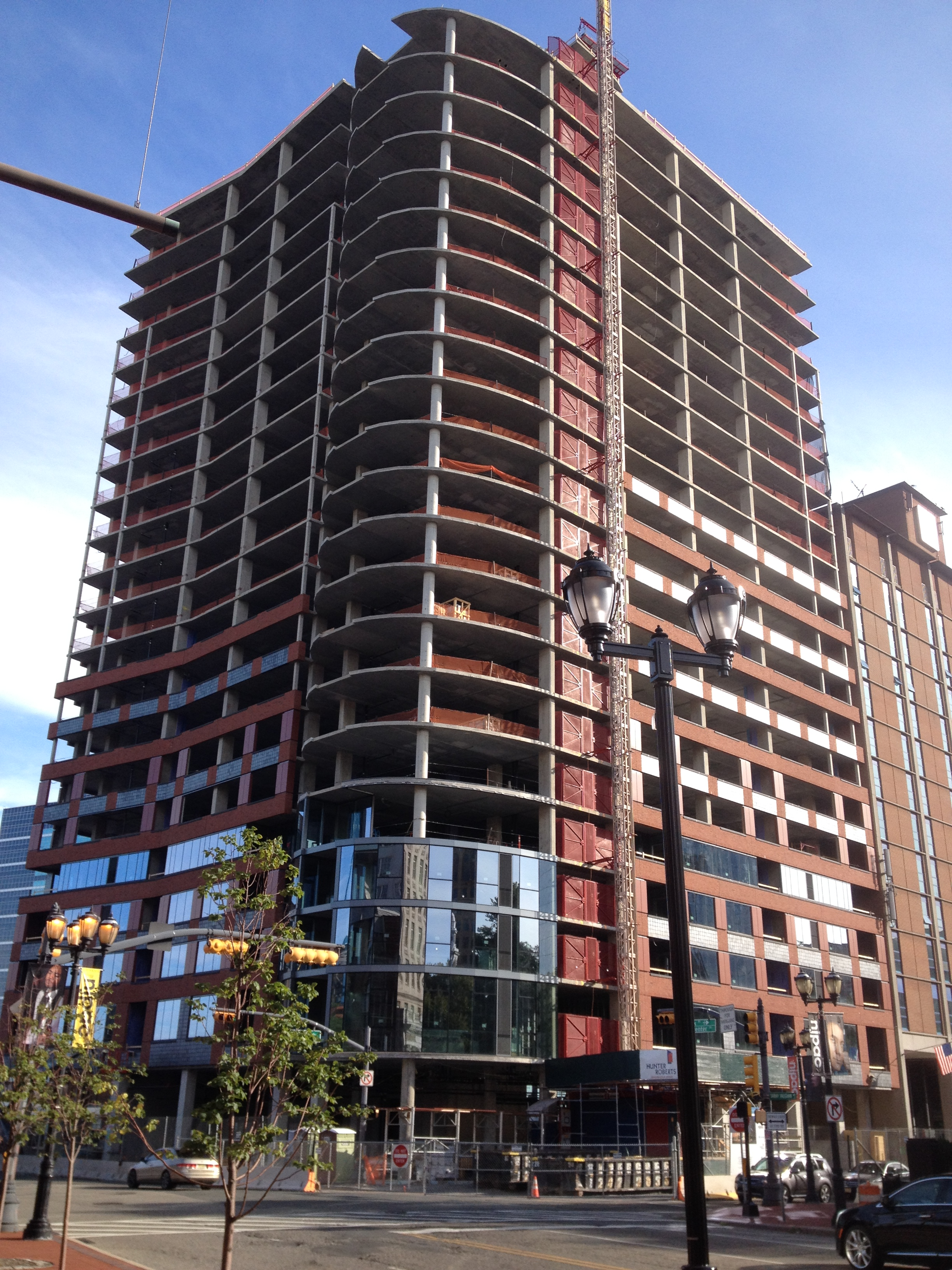 One Theater Square Centre Street Newark/NJPAC